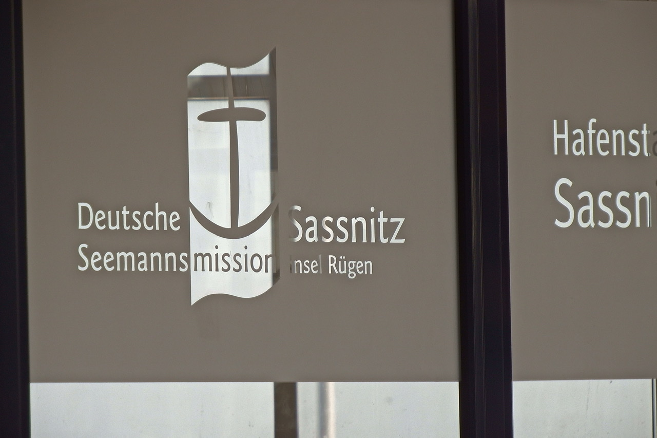 The logo is the same for all members of Deutsche Seemannsmission just adding the place